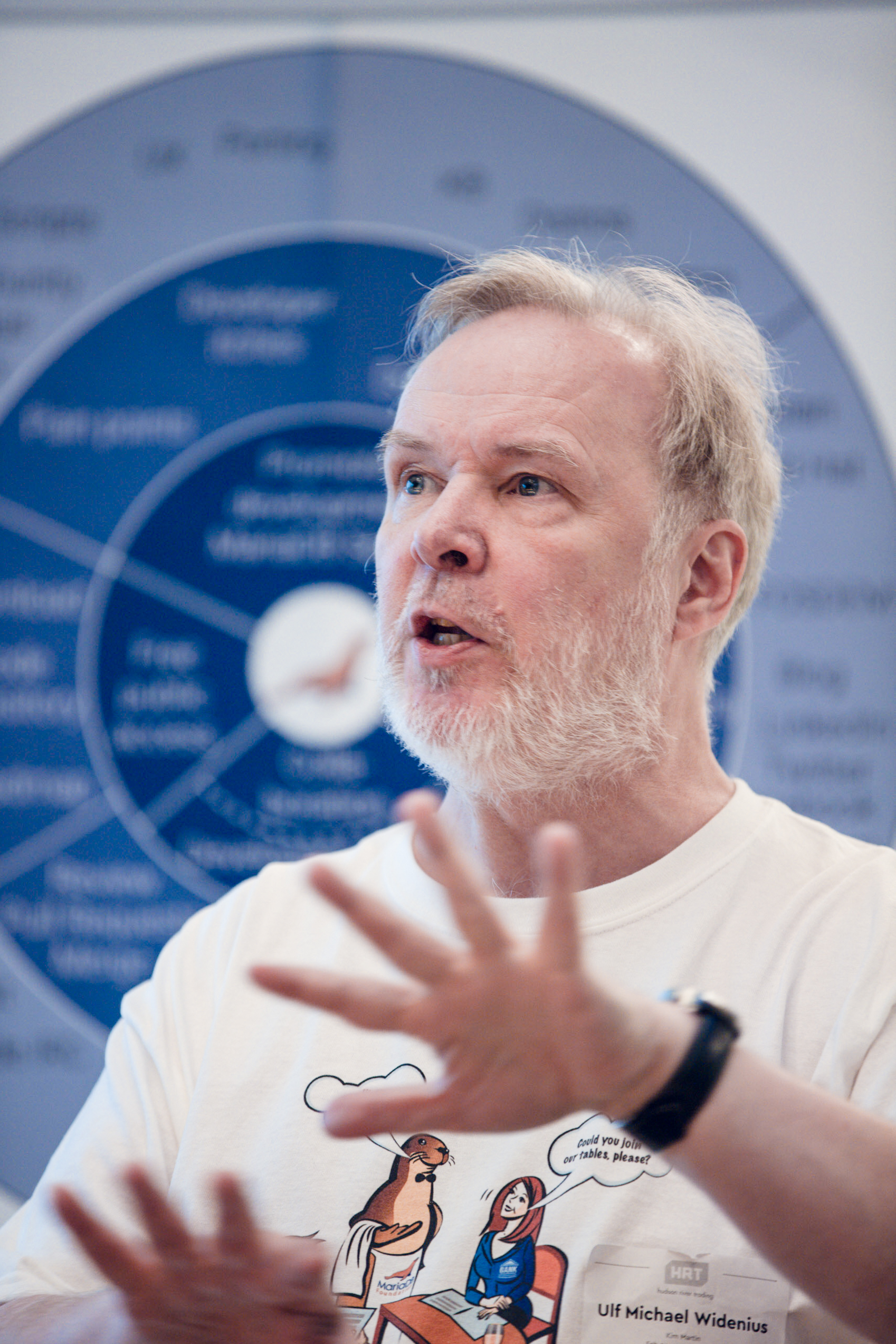 Portrait of Michael ”Monty” Widenius. Shot during MariaDB’s Developers Unconference 2019 in at Hudson River Trading, New York City.